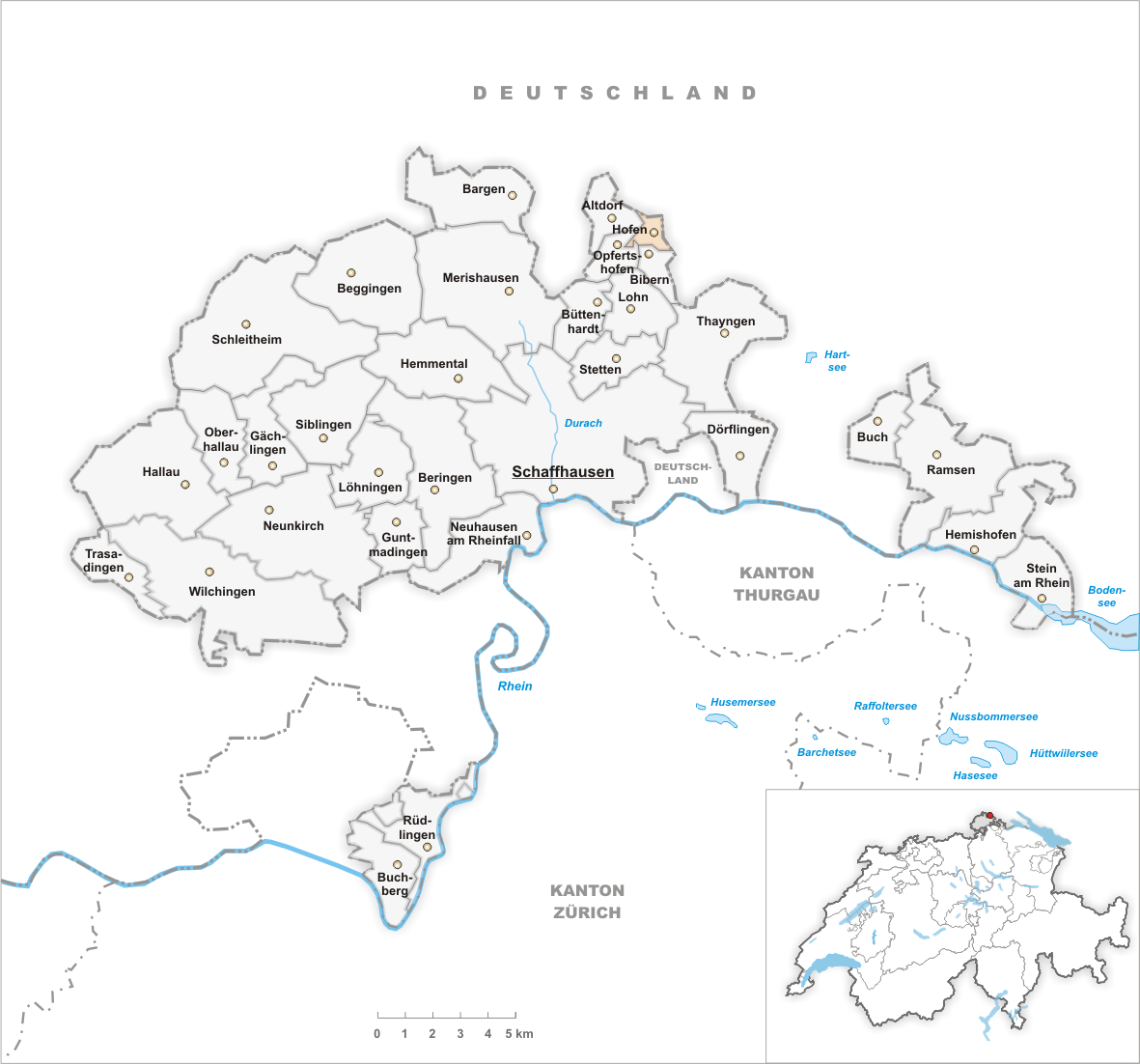 Municipality Hofen